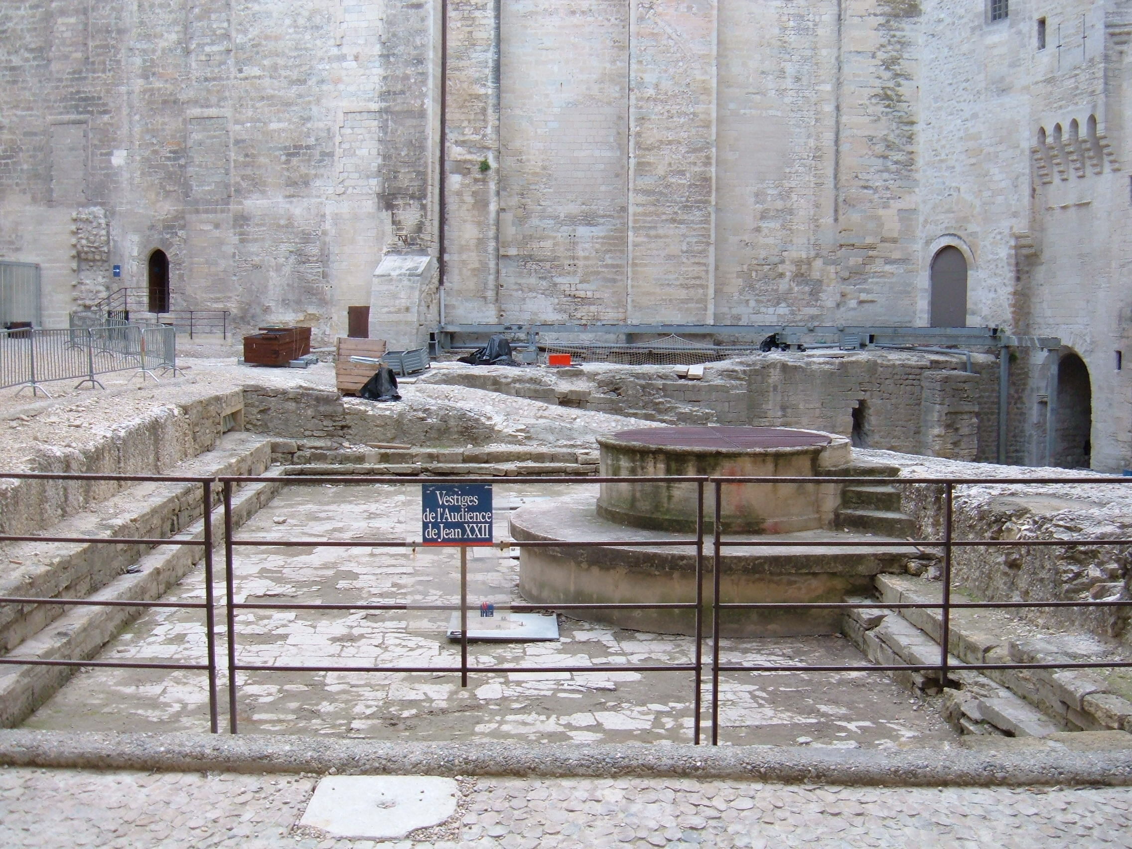 Ruins of John XXII's audience chamber in the Palais des Papes in Avignon, France.